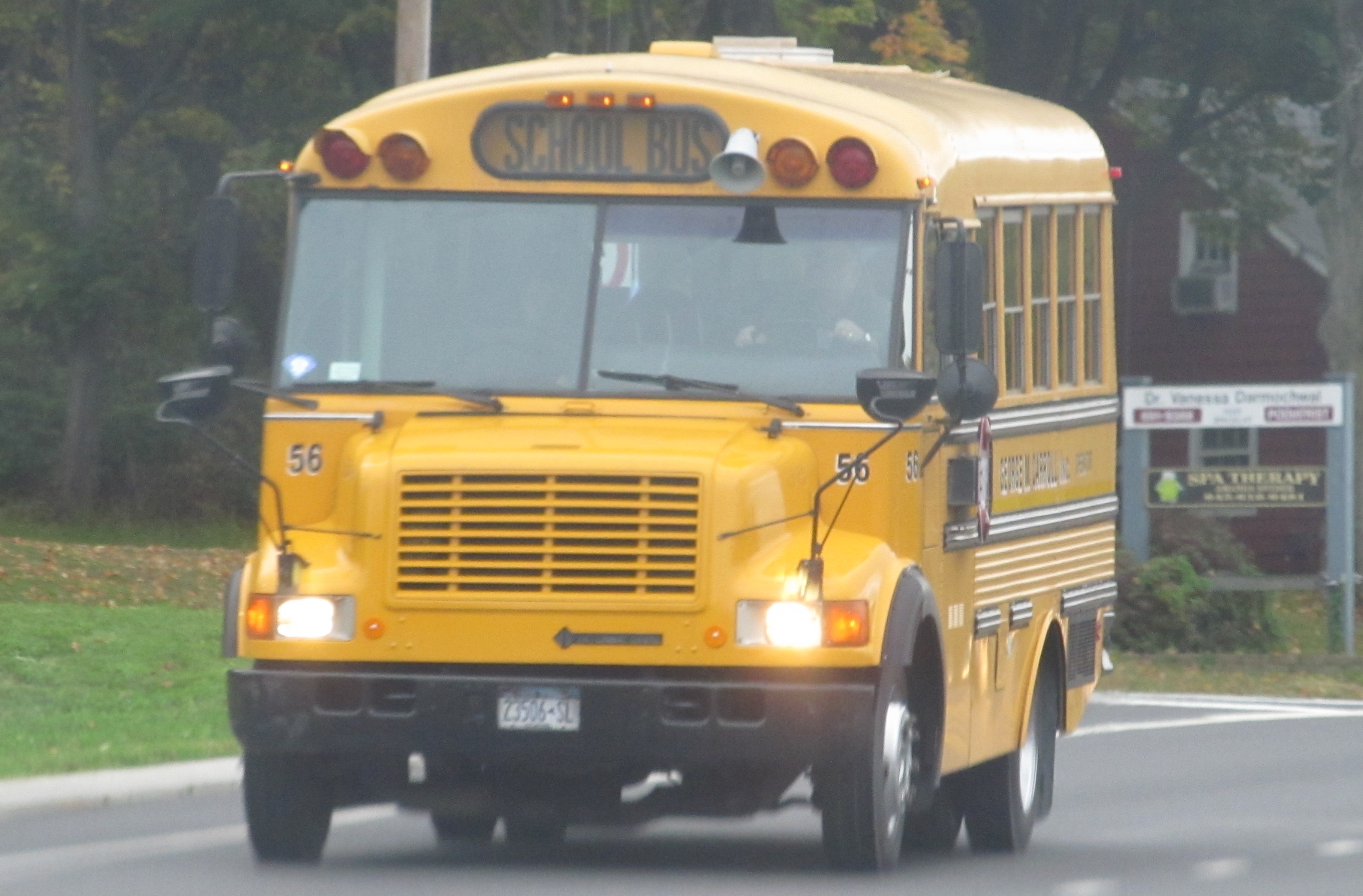 A school bus operated by school bus contractor George M. Carroll, Inc. in Newburgh, New York. The bus is a 1993-1994 Vista by Thomas Built Buses on a Navistar International 3600 chassis.